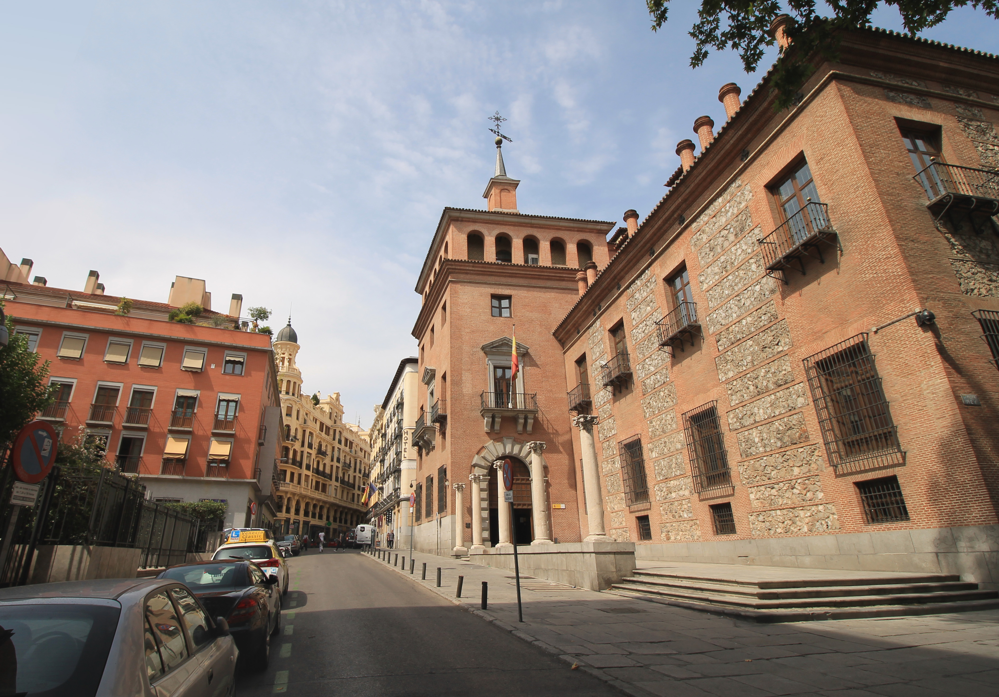 View from Calle de las Infantas (street) in Madrid (Spain). Right: Casa de las Siete Chimeneas.